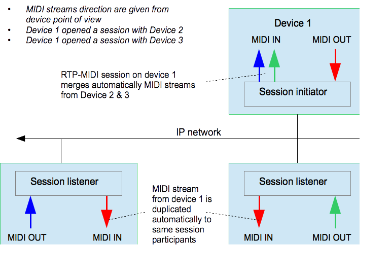 Diagram showing how RTP-MIDI sessions merge and duplicate MIDI streams automatically between devices sharing the same session